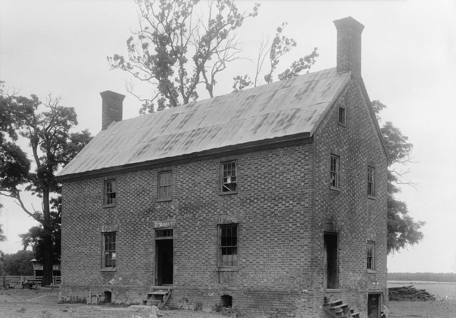 St. Anne's Parish Glebe House, U.S. Route 17 near Route 632, Champlain vicinity (Essex County, Virginia) cropped This file comes from the Historic American Buildings Survey (HABS), Historic American Engineering Record (HAER) or Historic American Landscapes Survey (HALS). These are programs of the National Park Service established for the purpose of documenting historic places. Records consist of measured drawings, archival photographs, and written reports. When reusing please credit: Library of Congress, Prints & Photographs Division, VA,29-CHAMP.V,1-1 This tag does not indicate the copyright status of the attached work. A normal copyright tag is still required. See Commons:Licensing. This work is in the public domain in the United States because it is a work prepared by an officer or employee of the United States Government as part of that person’s official duties under the terms of Title 17, Chapter 1, Section 105 of the US Code. Note: This only applies to original works of the Federal Government and not to the work of any individual U.S. state, territory, commonwealth, county, municipality, or any other subdivision. This template also does not apply to postage stamp designs published by the United States Postal Service since 1978. (See § 313.6(C)(1) of Compendium of U.S. Copyright Office Practices). It also does not apply to certain US coins; see The US Mint Terms of Use. This file has been identified as being free of known restrictions under copyright law, including all related and neighboring rights.